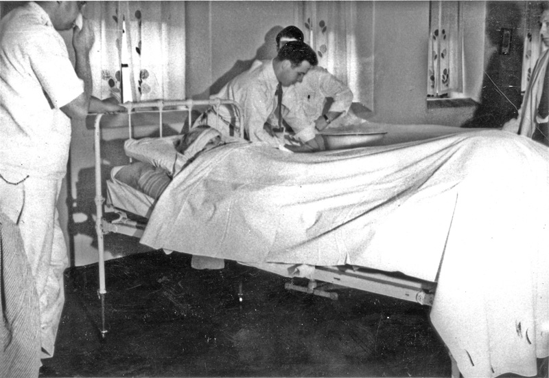 2013-0103m on back "Final - 'Patient' completely in cold pack"